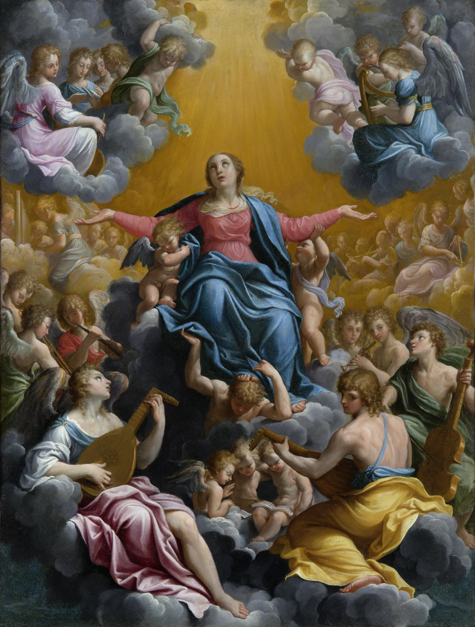 Exhibited at TEFAF 2014